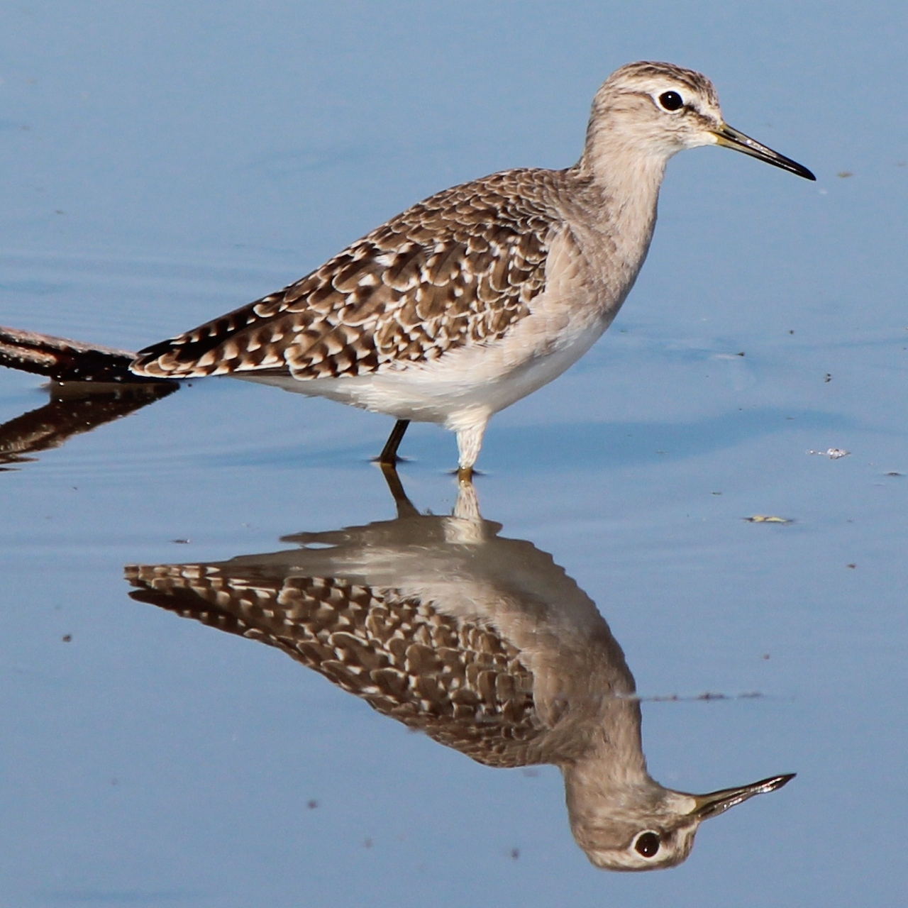 Tringa glareola (Wood Sandpiper) in Japan.